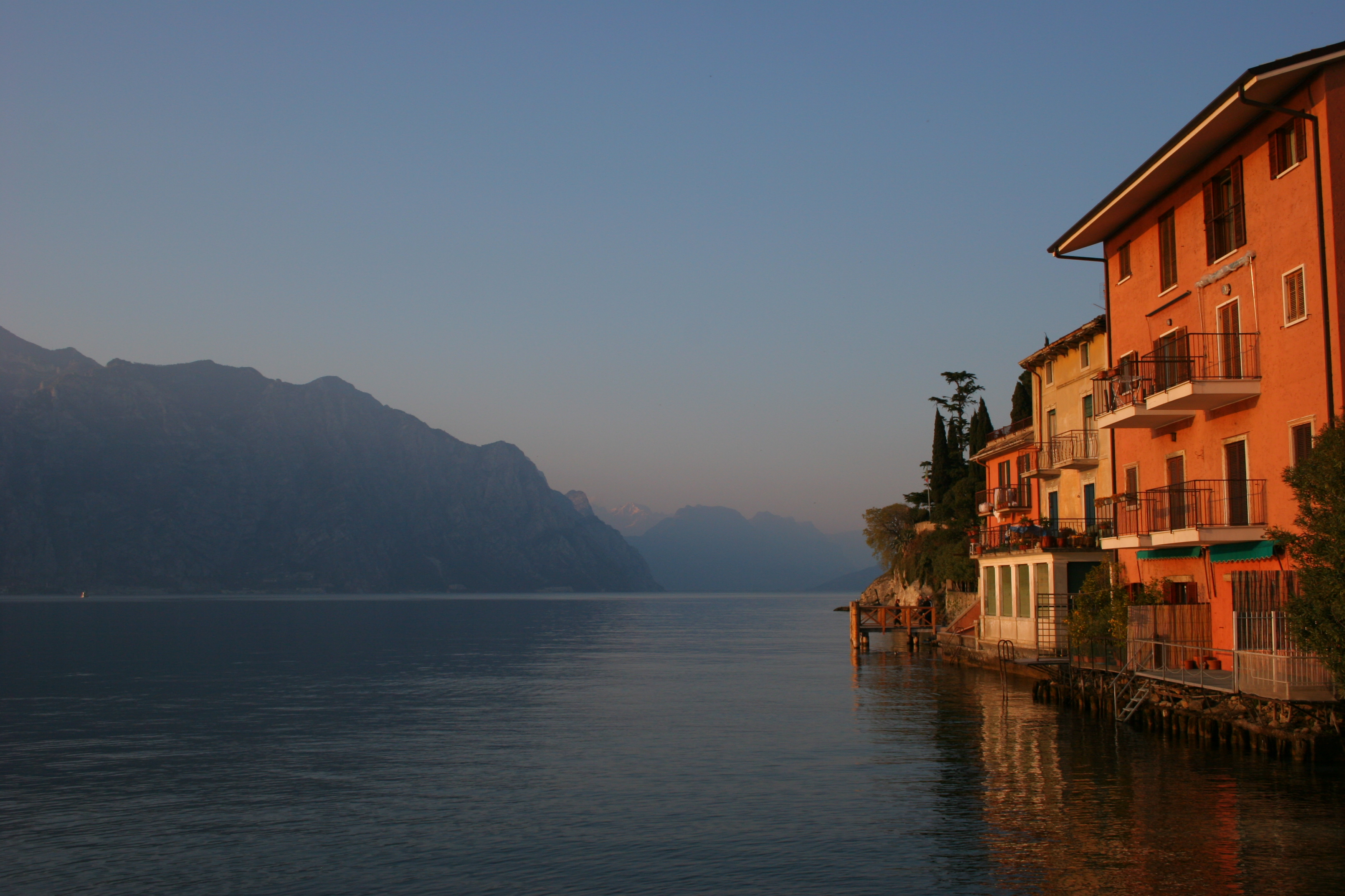 Sunset on Lake Garda. Taken from the town of Malcesine